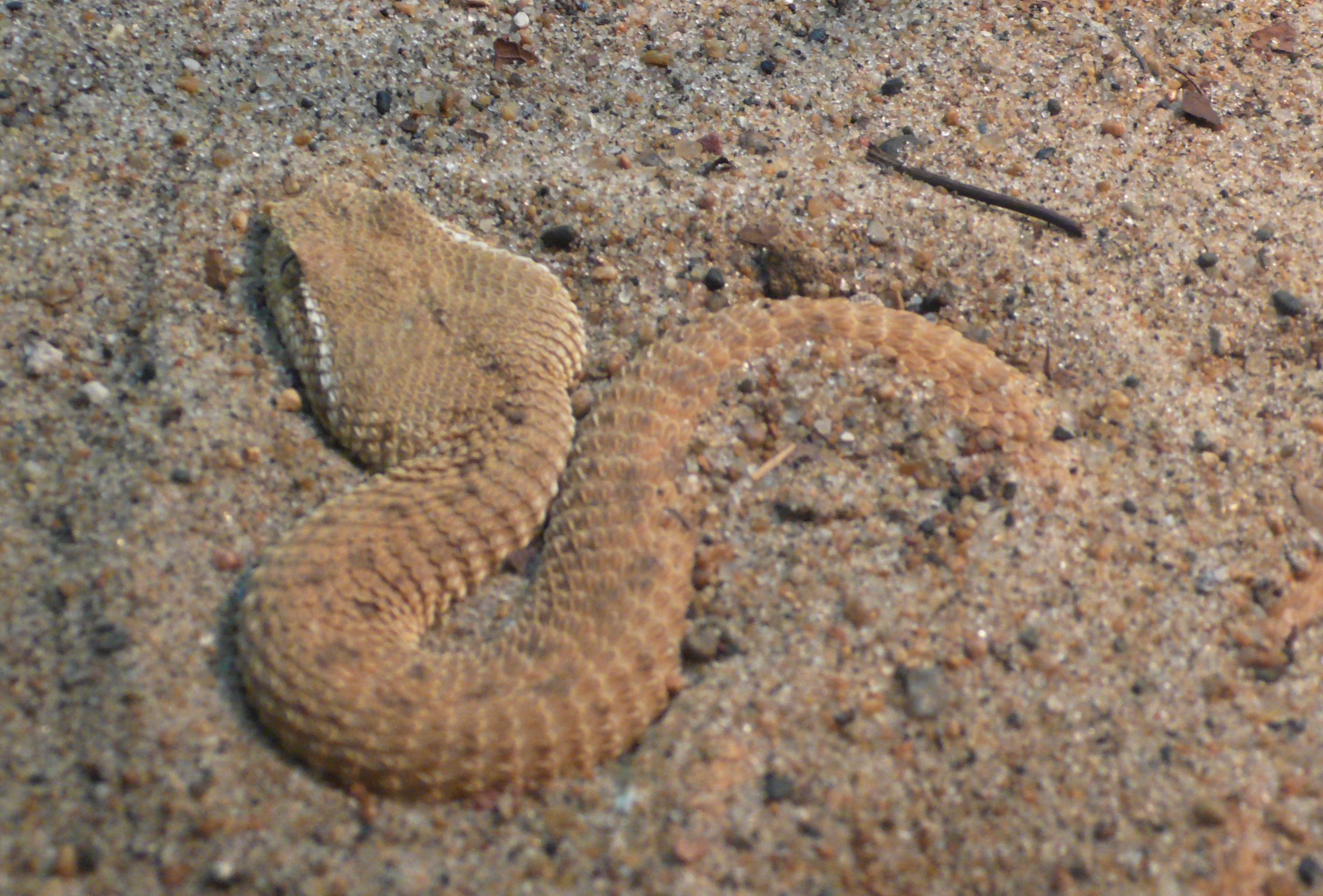 Leaf-nosed viper (Eristicophis macmahonii)